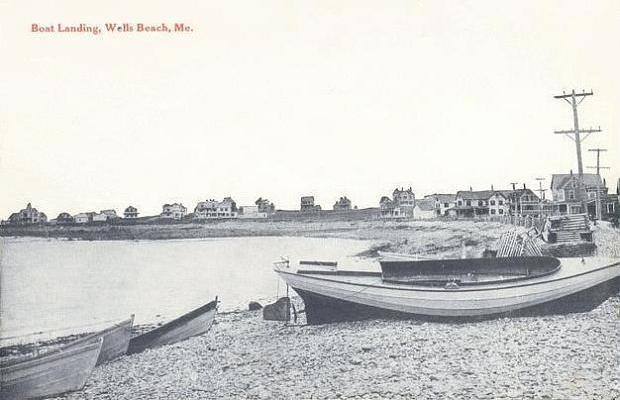 Boat landing, Wells Beach, Maine